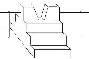 A type of stile: steps over a fence